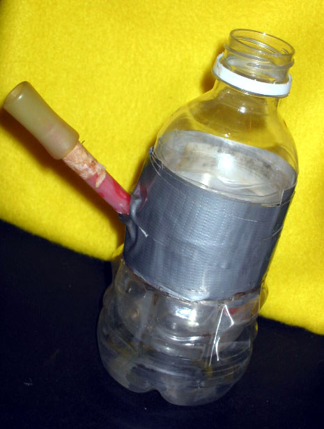 A homemade bong for inhalation of freebase methamphetamine, commonly known as "crystal meth". The methamphetamine is heated, and the smoke produced flows into the bong through a pipe connected to the pencil grip on the left. The main chamber is constructed by two water bottles taped together and filled with a liquid (a flavoured drink in my case). The user then inhales the smoke with his or her mouth sealed against the bottle's opening on top.